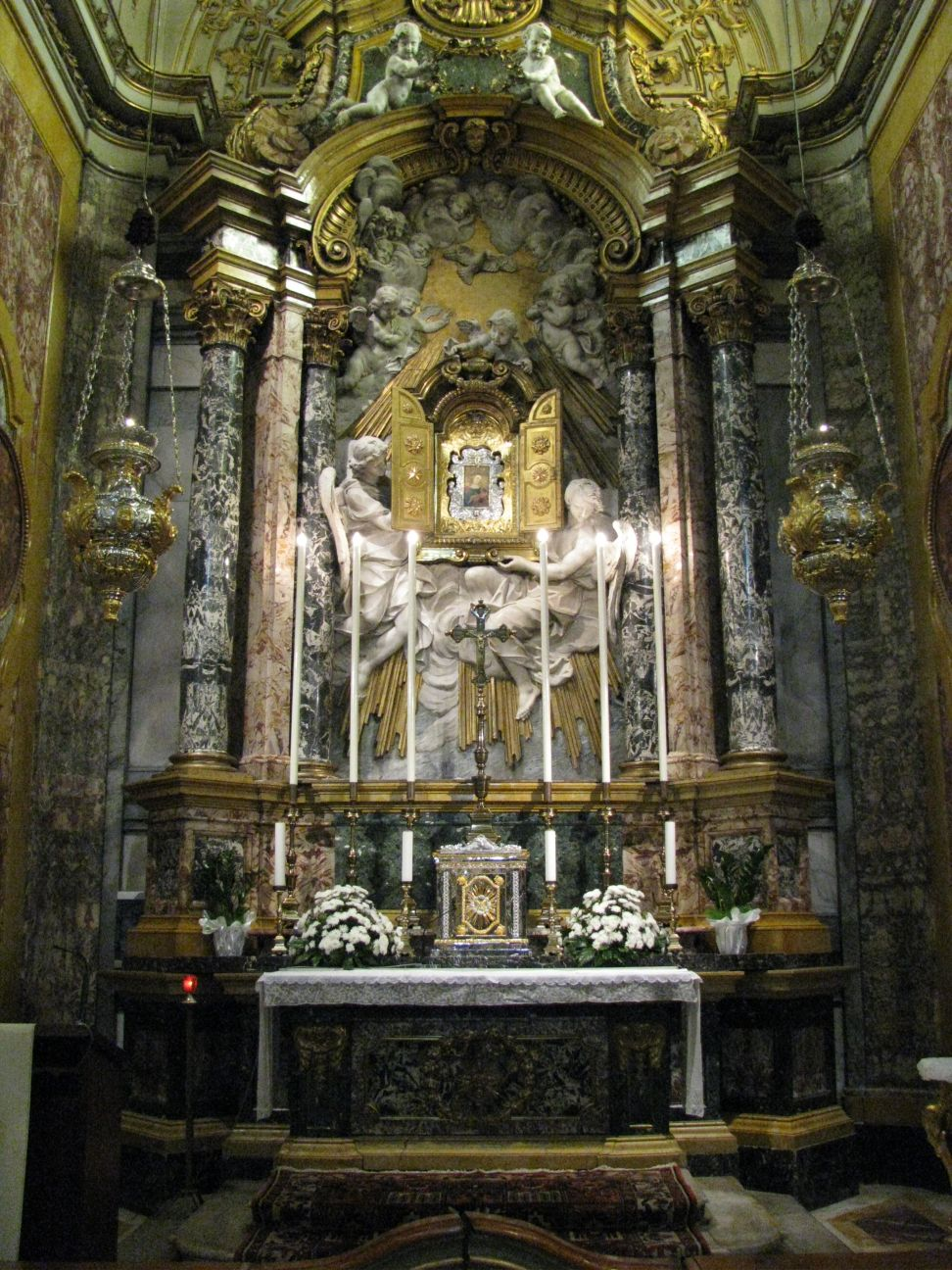 Capella Santa Maria del Sudore (Dome of Ravenna)